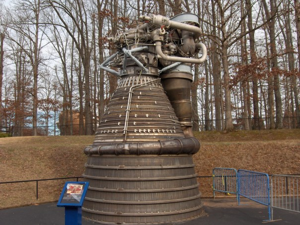 F-1 rocket engine on display at the United States Space and Rocket Center, Huntsville, AL. Photo taken by Jeb Orr 02/05/2006.